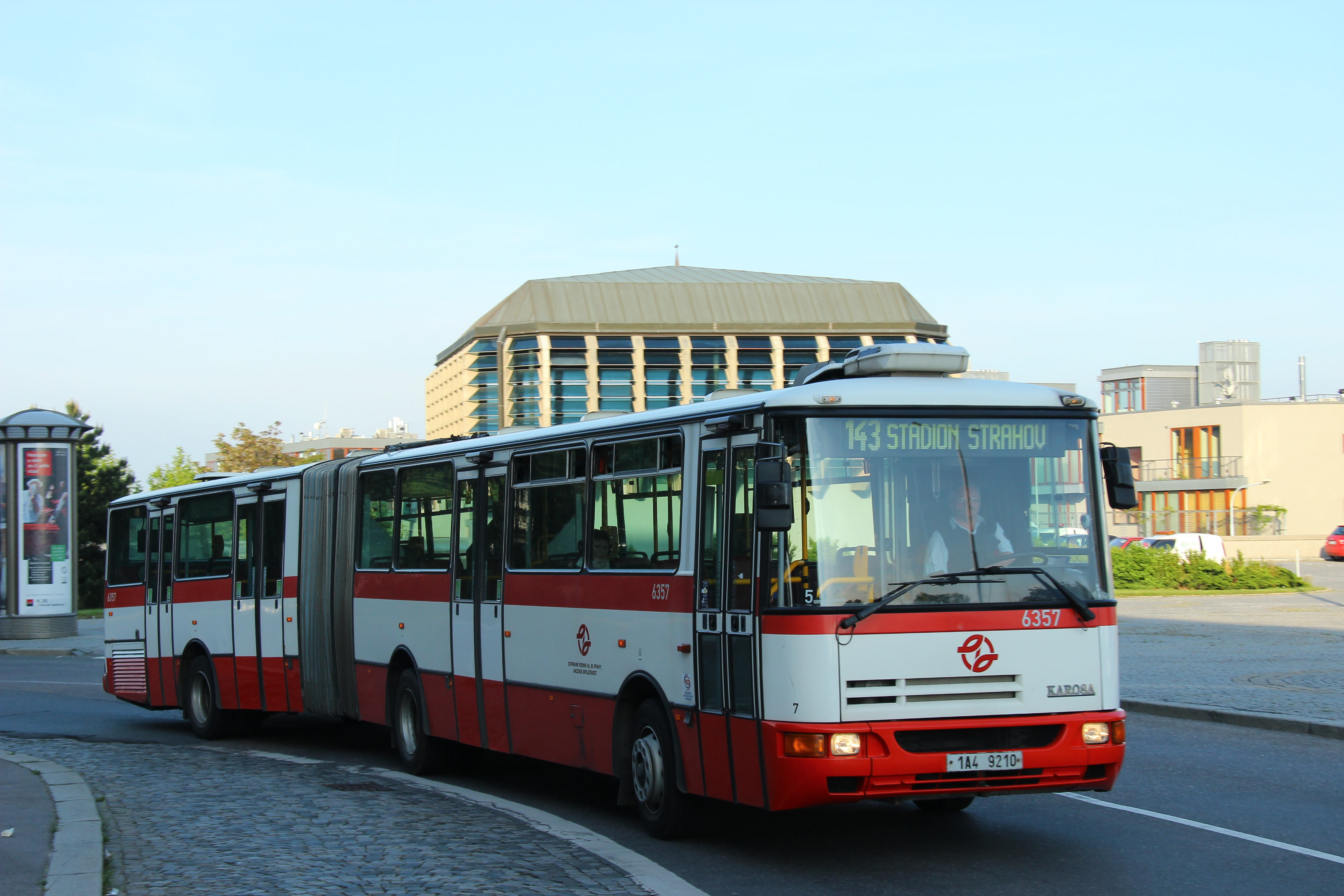 Organization of public transport during floods in June 2013, Prague, Czech Republic